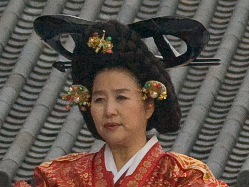 The 8th Chinjamrye reconstruction festival of Joseon dynasty was held on Nov. 17 2007 at Gangryeongjeon, Gyeongbokgung (royal palace) located in Seoul, South Korea. Chinjamrye was a big royal court event during Joseon dynasty for queens to encourage silk production to people. Queens relegated the event and represented to raise silkworms along with all well known ladies among royalty and nobility.